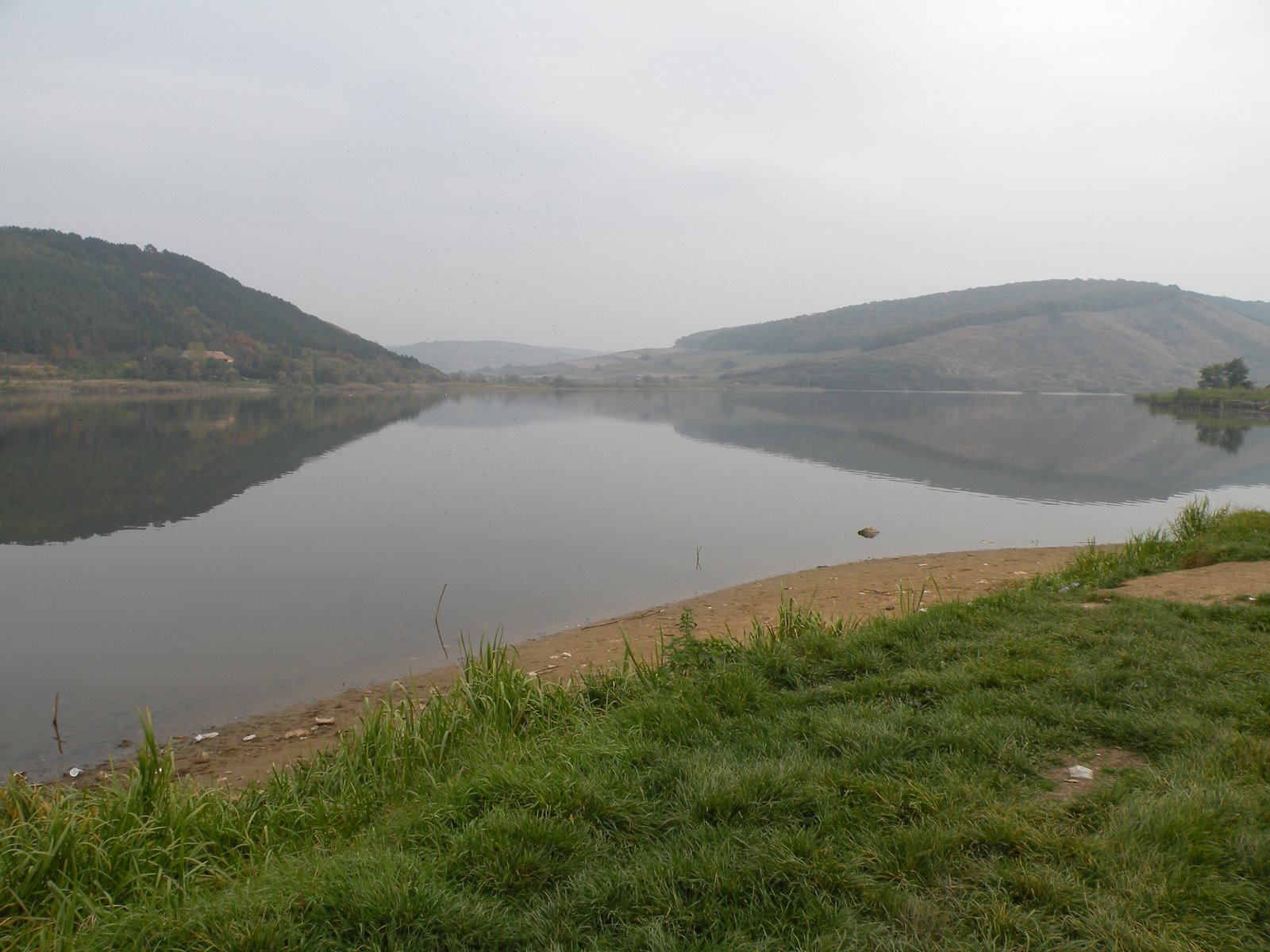 the Țaga Lake in Transylvania, Romania